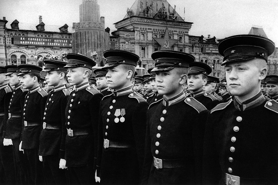 Soviet Victory Parade on Red Square